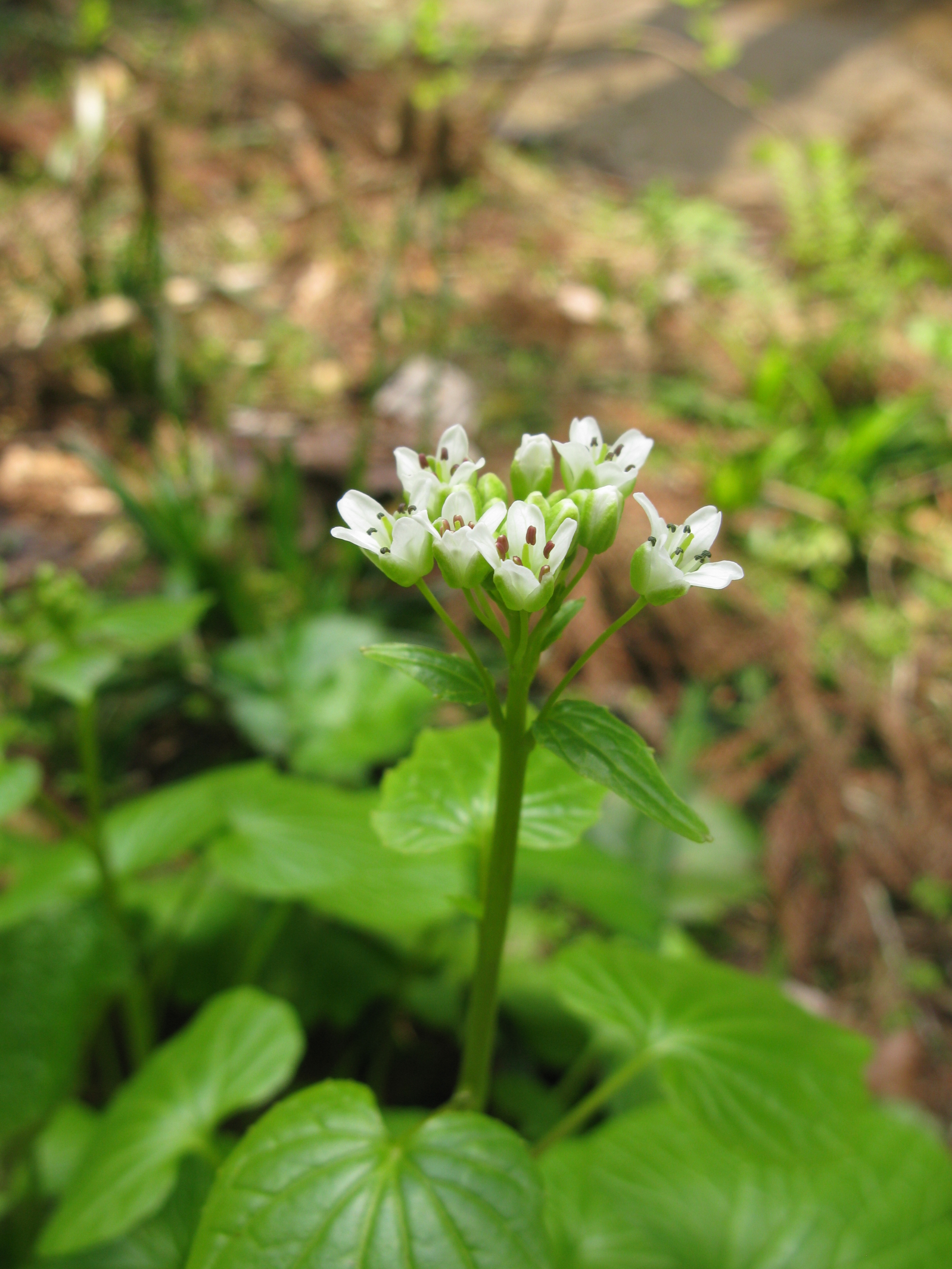 Wasabia japonica, Aizu area, Fukushima pref., Japan